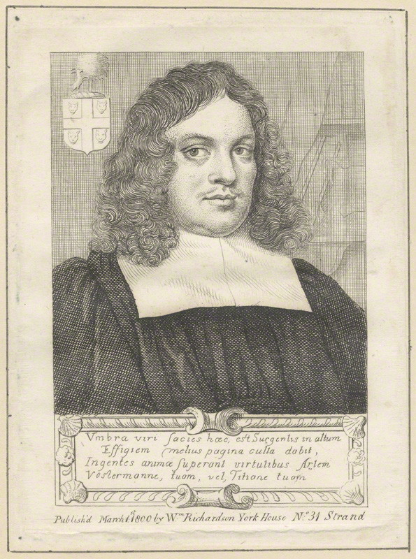 Engraved portrait of Richard Kingston, (1635?–1710?) was an English political pamphleteer, clerical impostor, and spy.